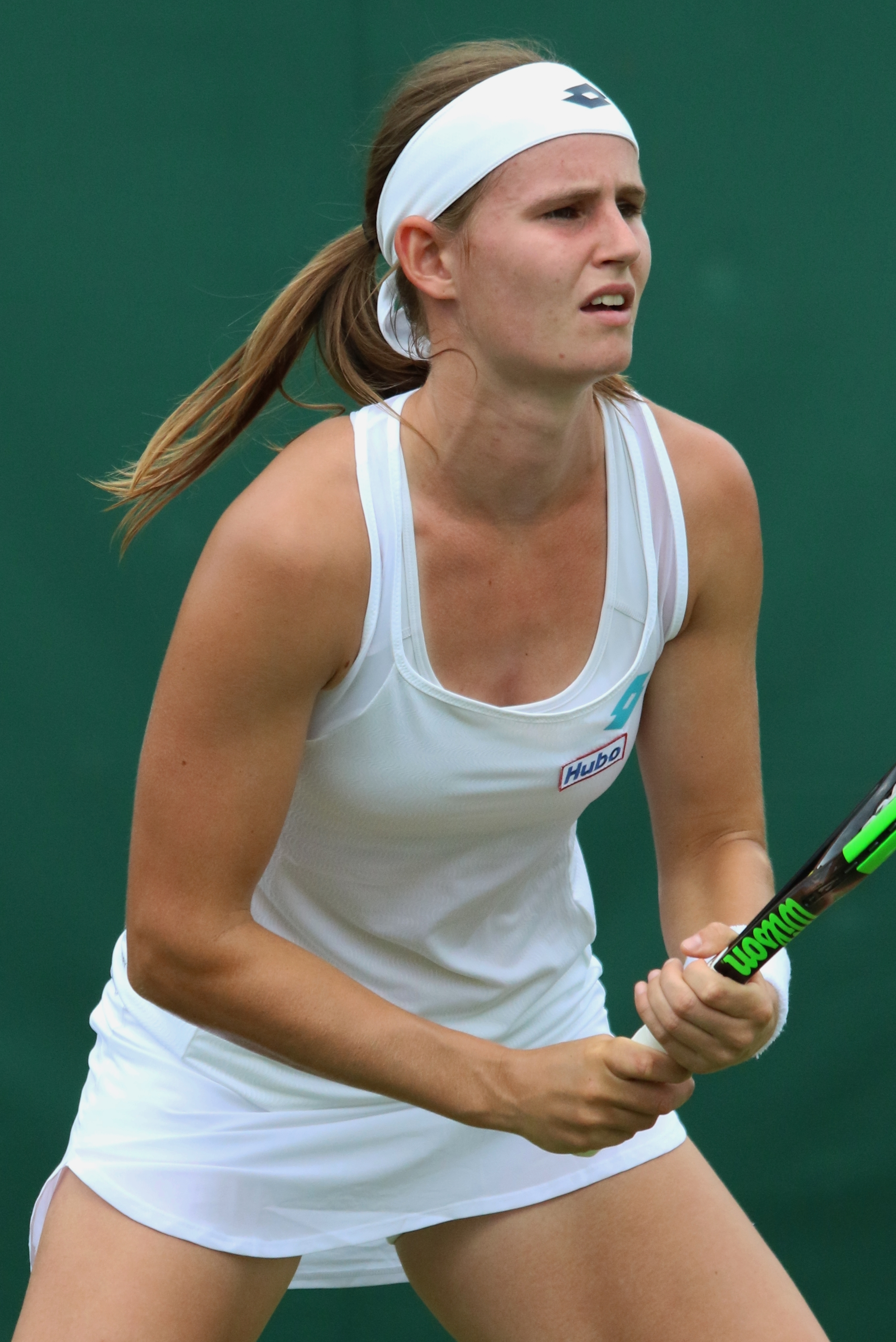 2019 Wimbledon Qualifying Tournament.